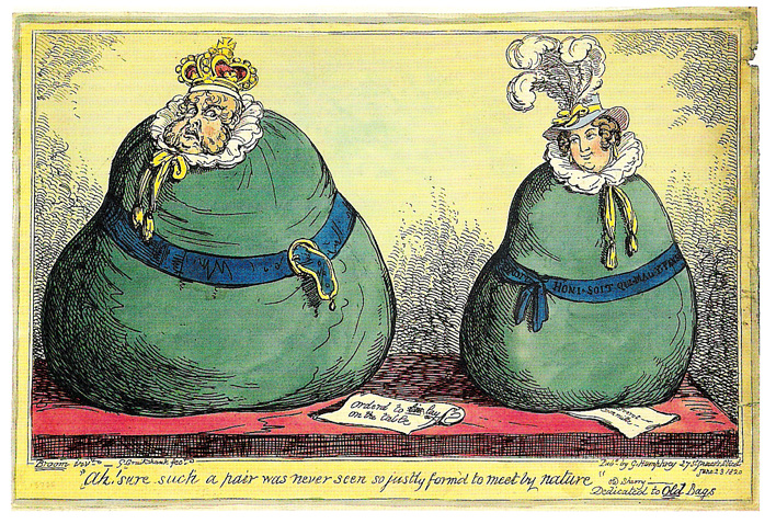 "Ah! Sure Such a Pair was Never Seen so Justly Form'd to Meet by Nature": In this iconic caricature, George and Caroline are depicted as a pair of fat green bags, a clear reference to the green bags that contained the evidence collected against Caroline by the Milan commission. George is much fatter than Caroline, and his bag is girded by a garter belt, part of which hangs down in the manner of a limp penis.